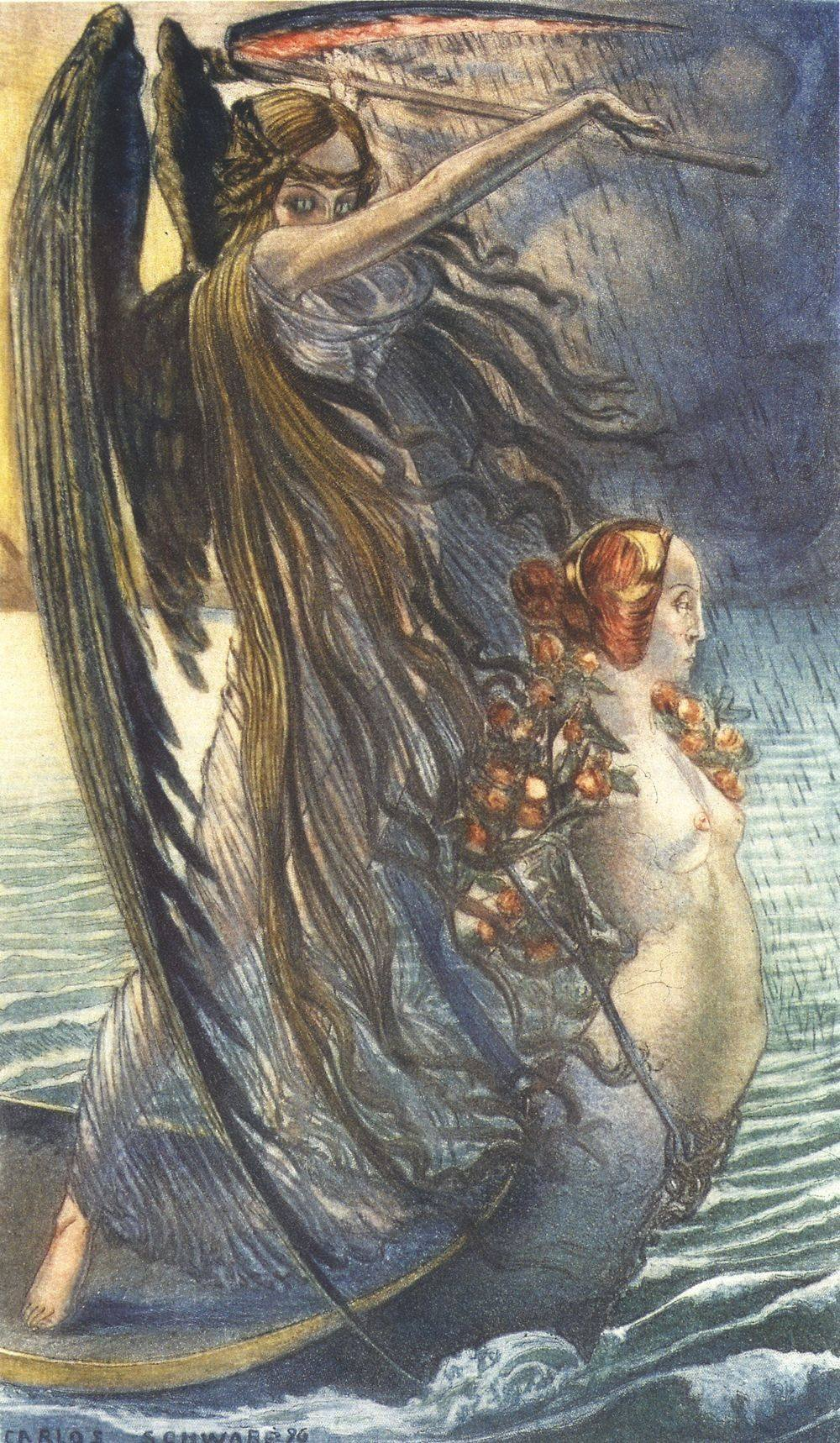 Altona (Germany)